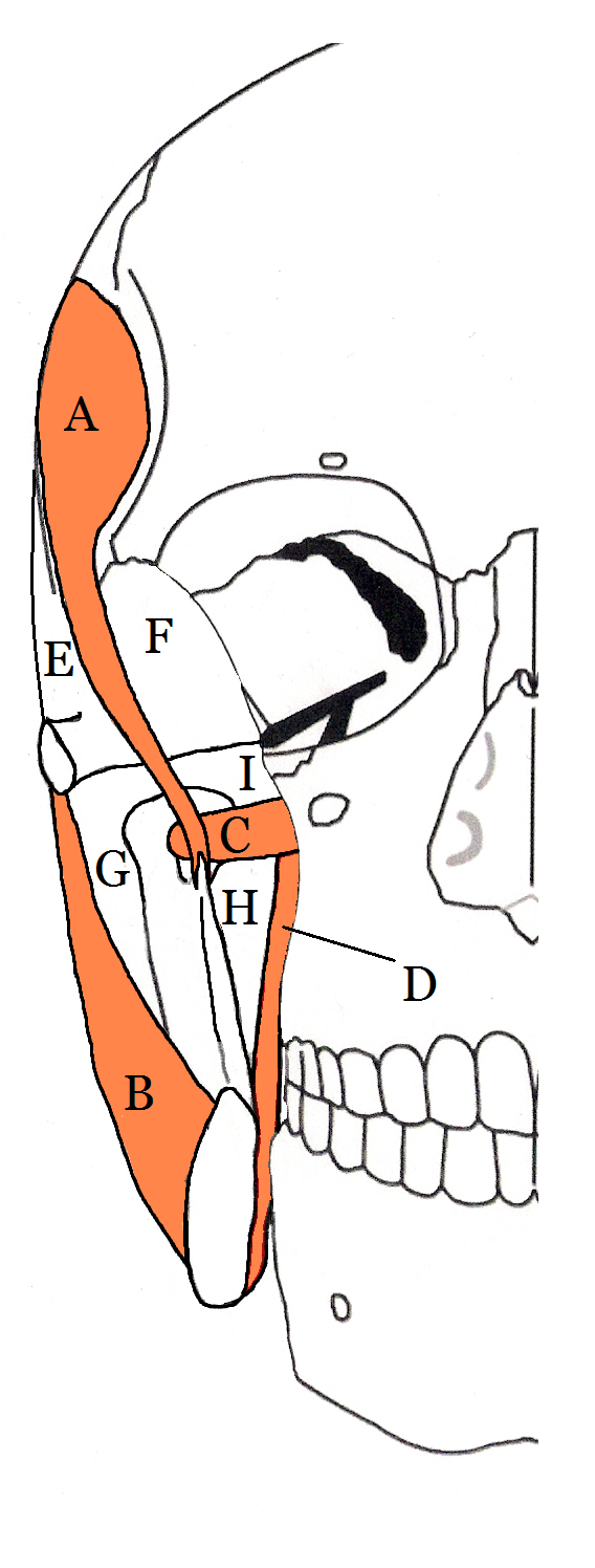 Based on SkullSchaedel3.png , edited to show muscles of mastication and labelled compartments of the masticator space